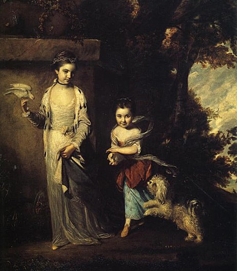 Ladies Amabel and Mary Jemima Yorke: 1760 by Joshua Reynolds - aka Amabel Hume- Campbell, suo jure Countess De Grey (1751–1833)